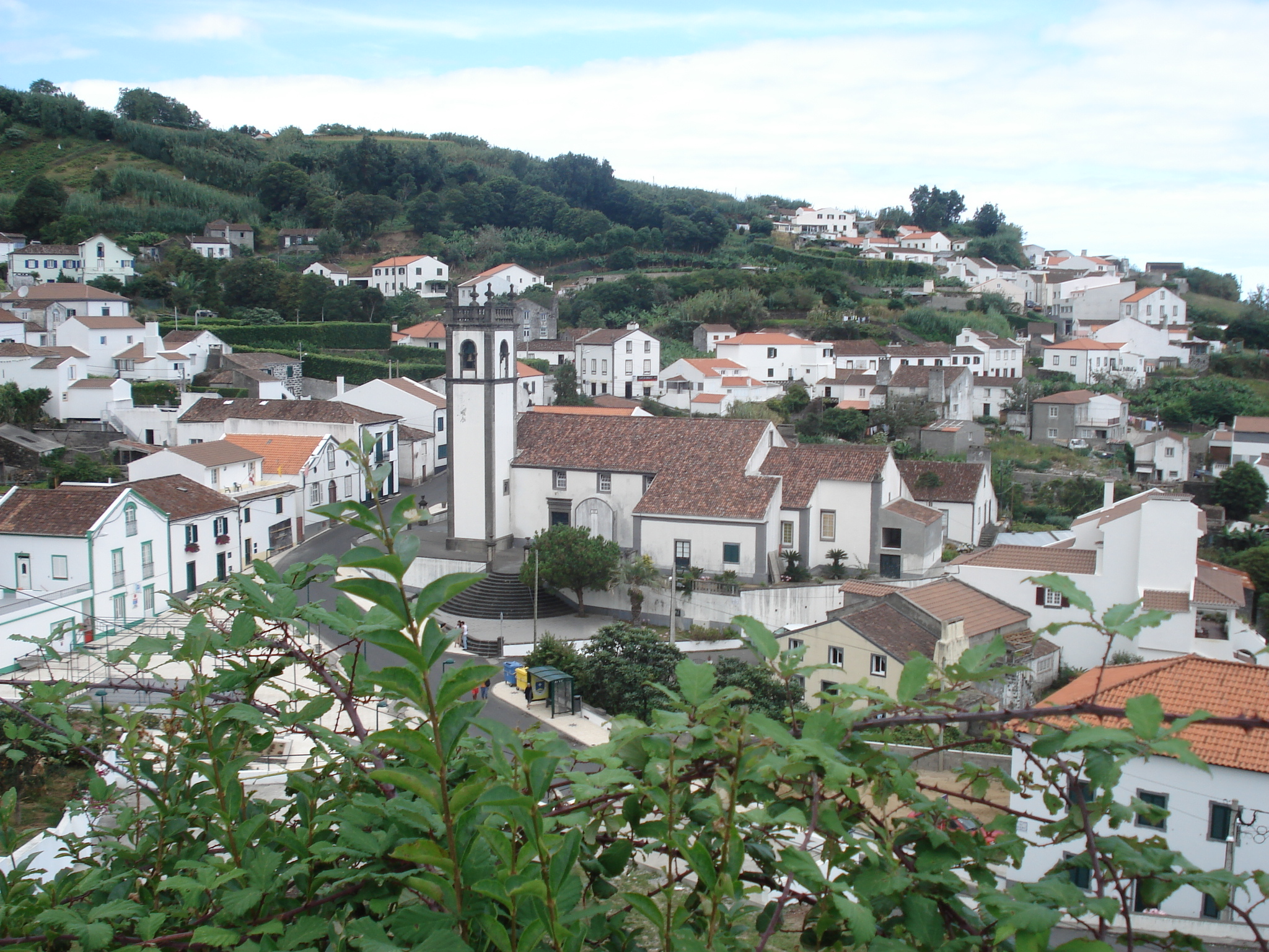 Center of the village of Santo António, municipality of Ponta Delgada, on the island of São Miguel, Azores